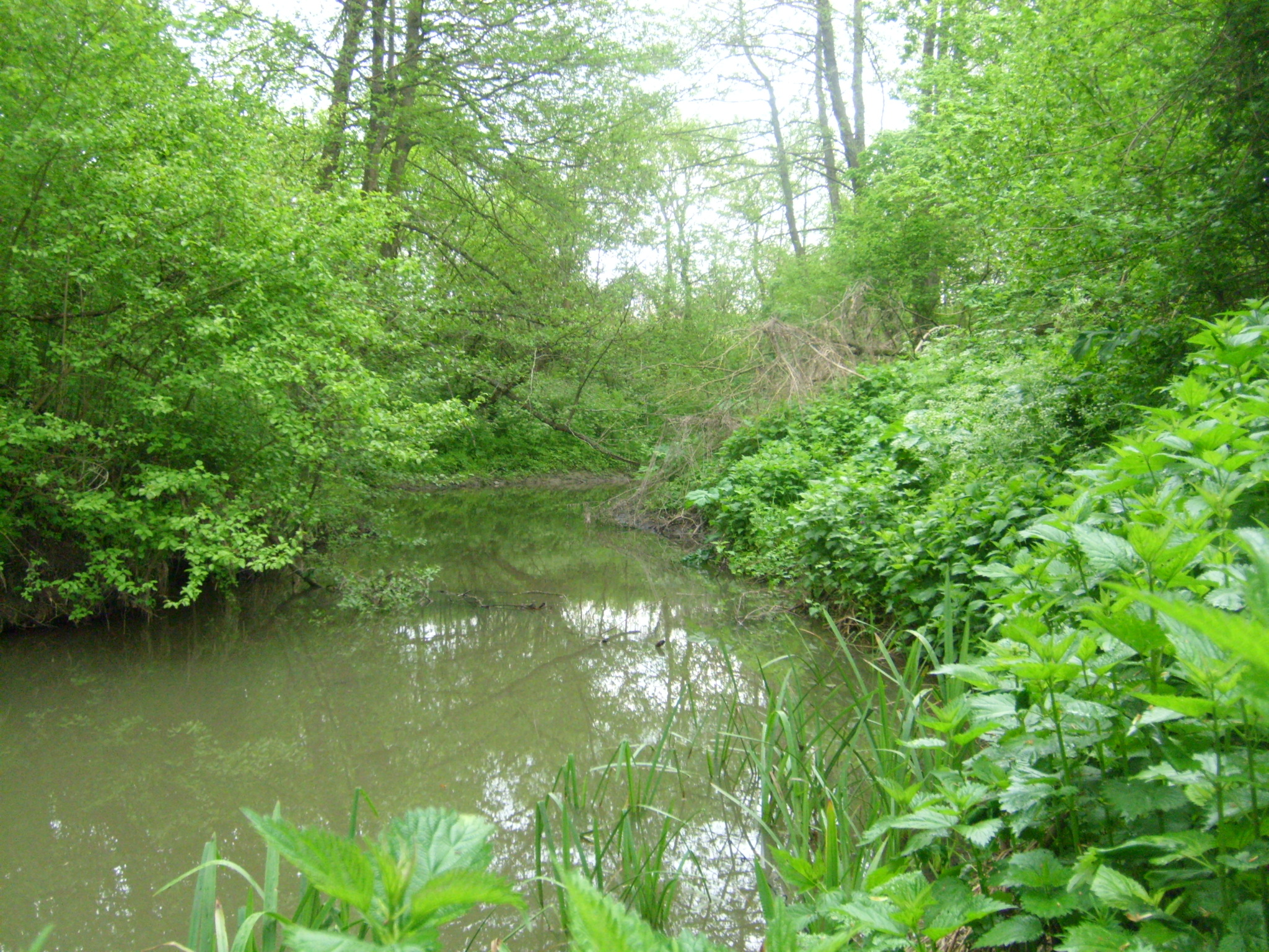 Sups River near Otradnoye.